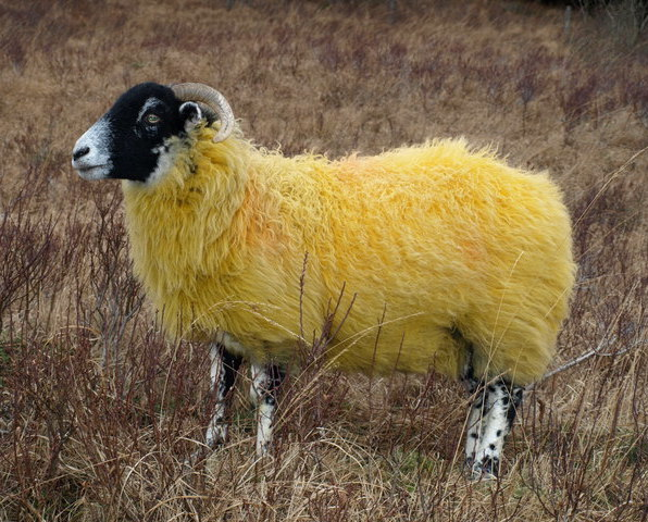 Winter Fashion In Glen Douglas